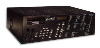 E-mu Emax HD